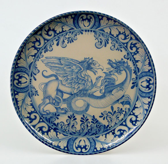 Ornamental maiolica plate of Laterza, Apulia, Italy .